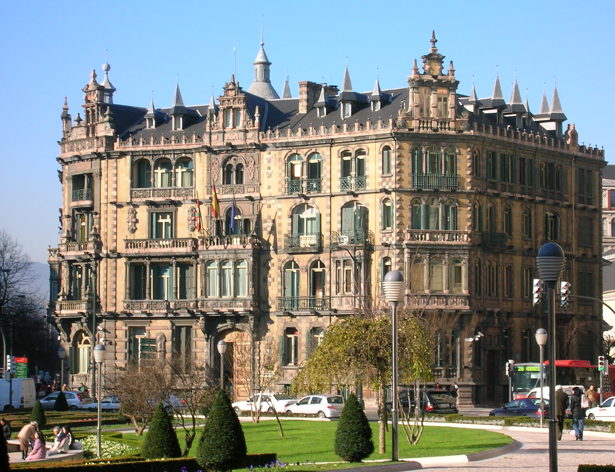 Chavarri Palace, current see of the Civil Government of Biscay. Bilbao.